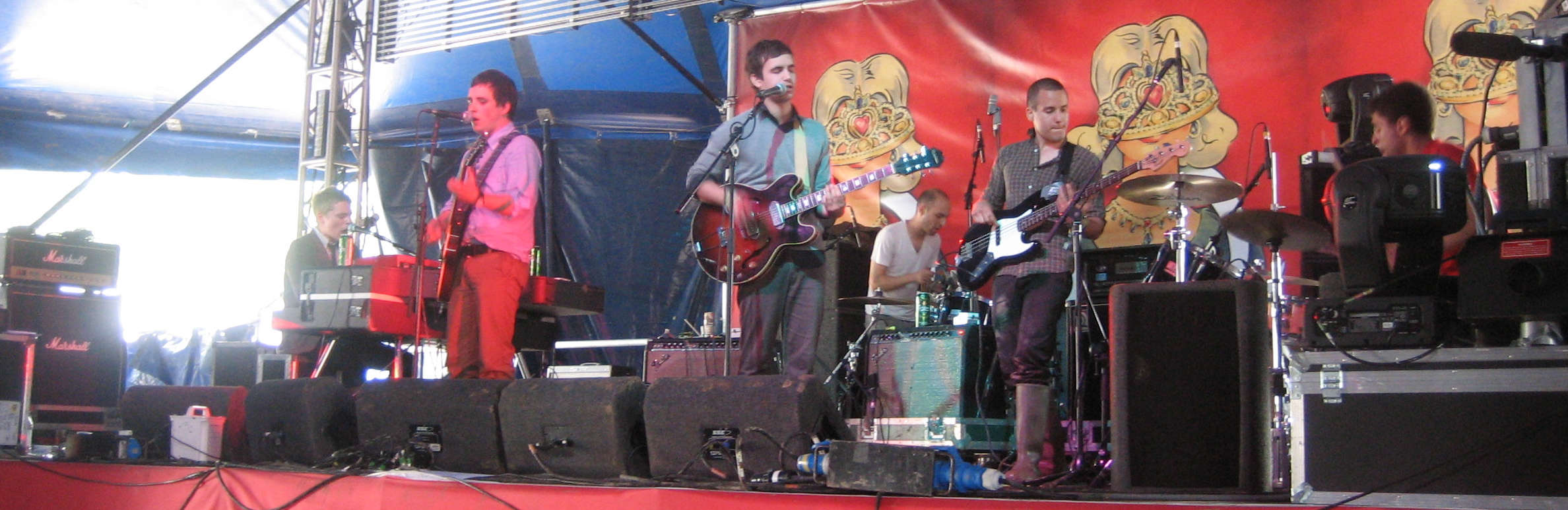 White Rabbits playing the Queens Head Stage at Glastonbury Festival 2007